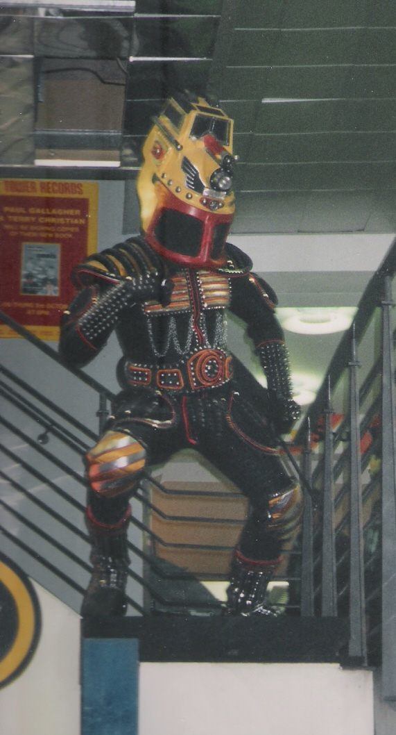 Costume of Starlight Express